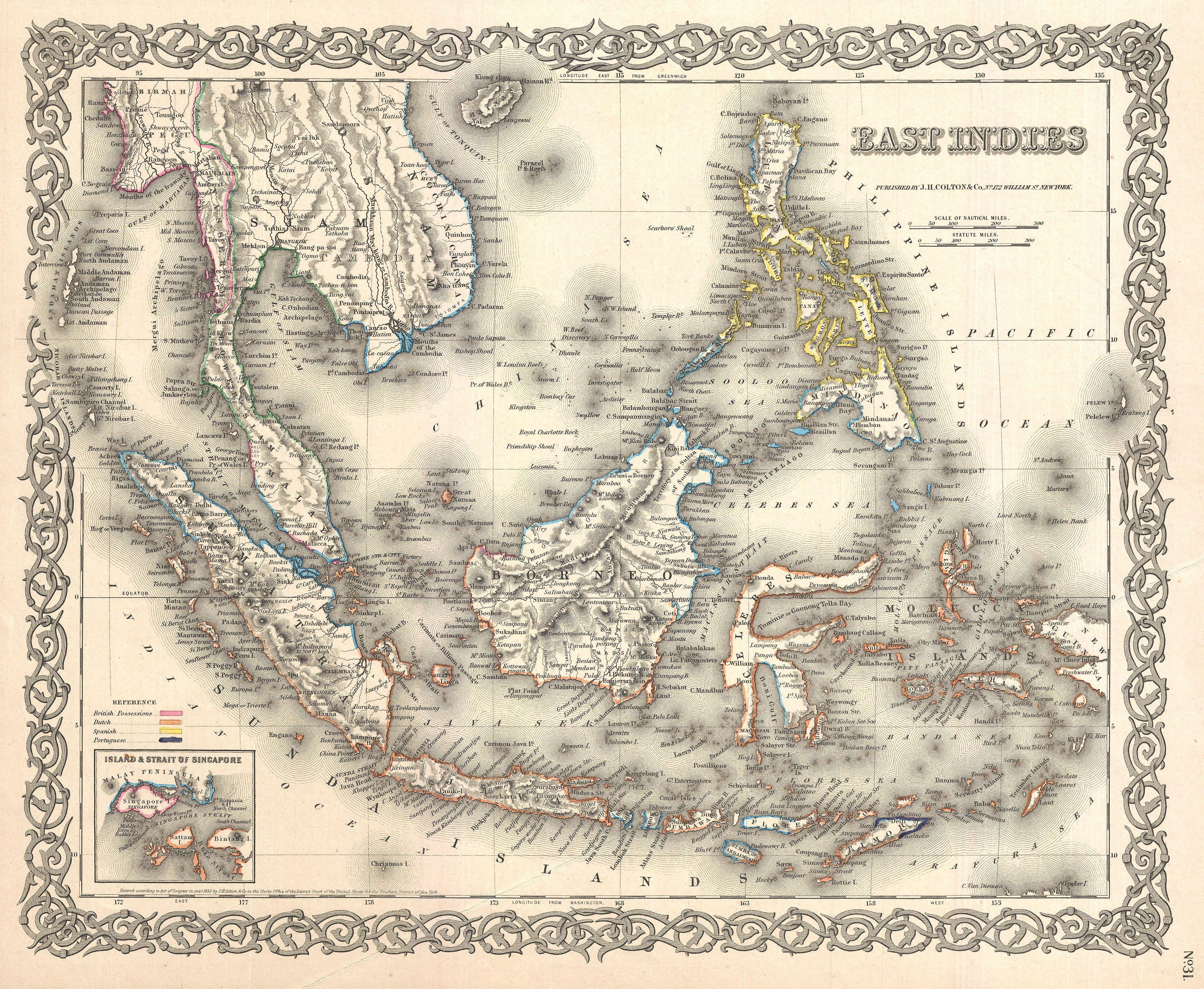 A beautiful 1855 first edition example of Colton's map of the East Indies. Covers from Burma in the extreme northwest to New Guinea and East Timor in the southeast. Includes of Burma, Pegu, Siam (Thailand), Cambodia, Chochin (South Vietnam), Malay (Malaysia), Borneo, the Philippines, Java Sumatra, and Singapore. This map is significant as it is among the first American maps to detail the Island and City of Singapore - appearing bottom right. When this map was made, Singapore, governed by the British East India Company, was experiencing a massive tide of immigration and growth due to its open immigration and free trade policies. Throughout the map, Colton identifies various cities, towns, forts, rivers, rapids, fords, and an assortment of additional topographical details. Surrounded by Colton's typical spiral motif border. Dated and copyrighted to J. H. Colton, 1855. Published from Colton's 172 William Street Office in New York City. Issued as page no. 31 in volume 2 of the first edition of George Washington Colton's 1855 Atlas of the World .